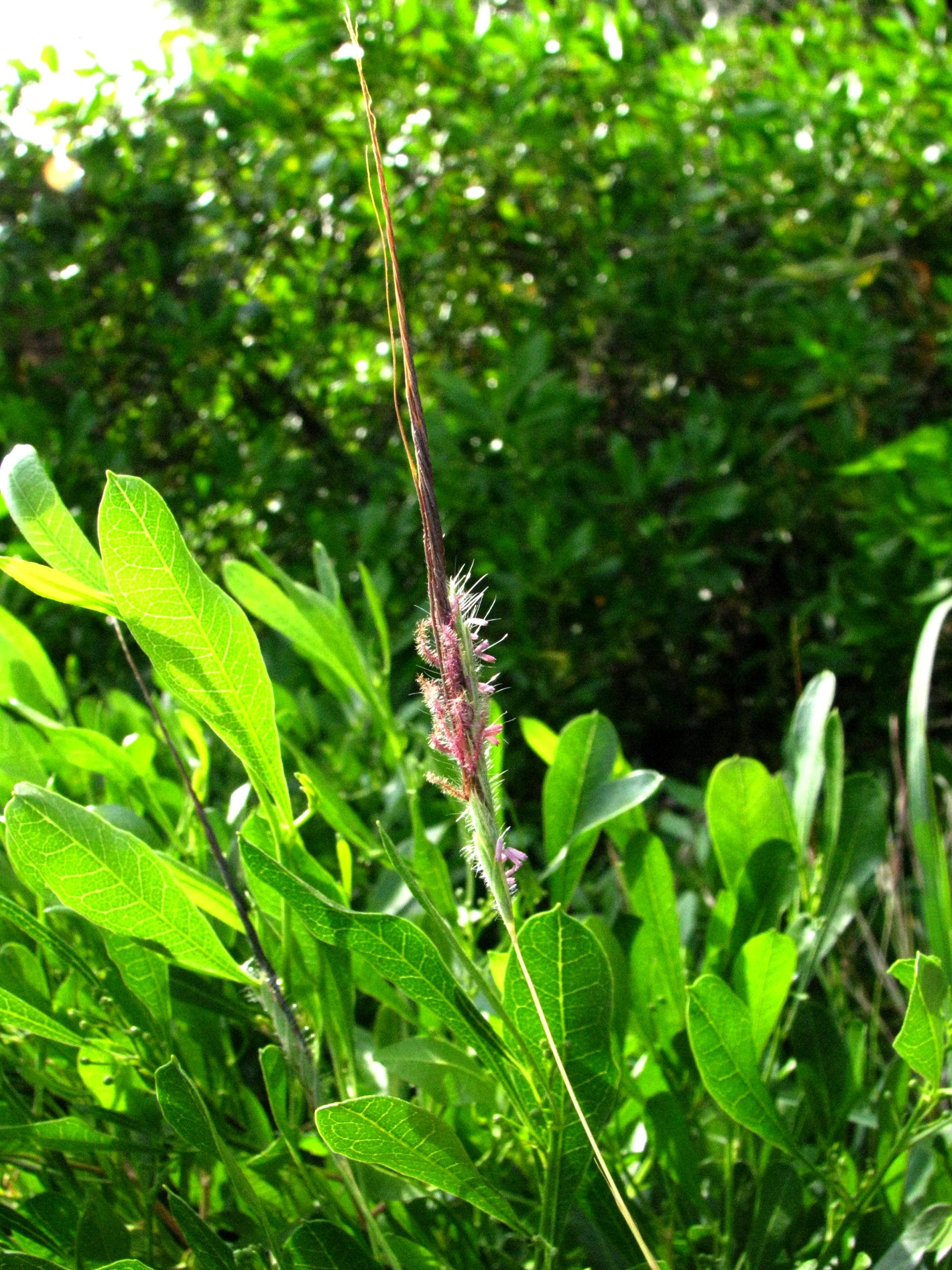 Pili or Twisted beardgrass Poaceae (Gramineae) Possibly indigenous to the Hawaiian Islands Oʻahu (Cultivated) Pili in flower. Pili was used for thatching roofs by early Hawaiians who also enjoyed the fresh scent of this grass.